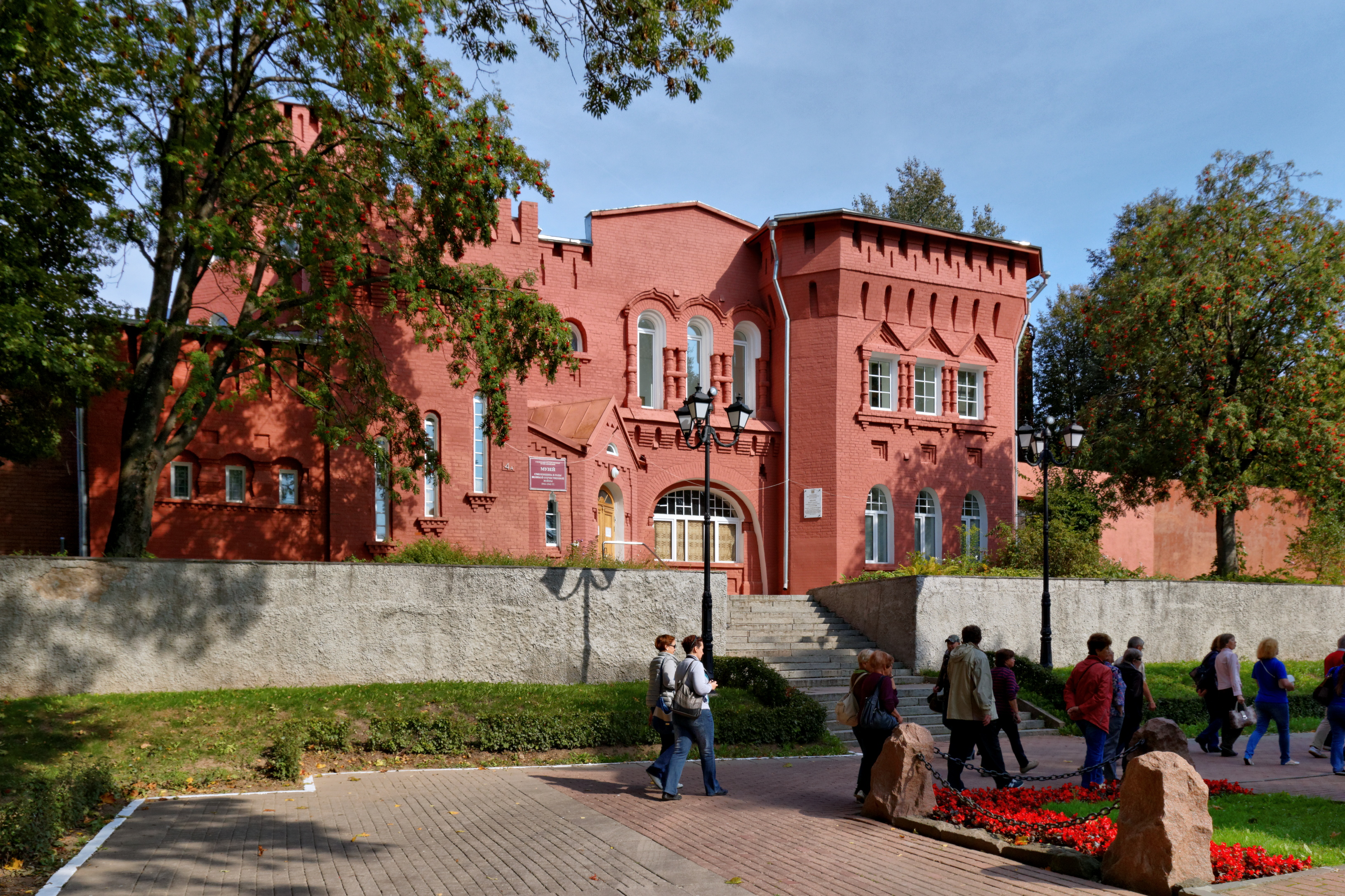 Smolensk. The museum "The Smolensk Region in the years of the Great Patriotic War, 1941 - 1945"